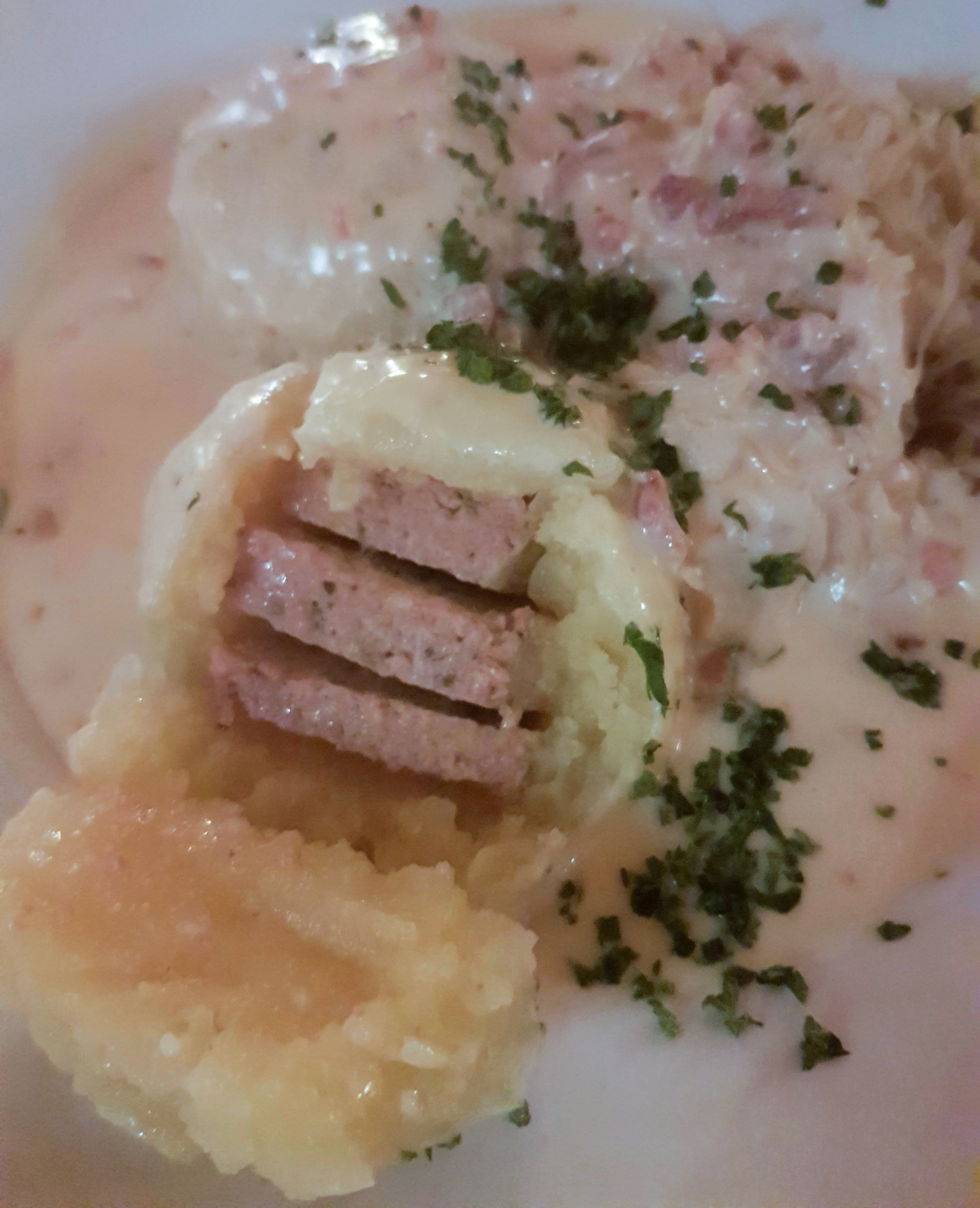 Saarland Gefüllte: Potato dumplings filled with liver sausage, bacon sauce and sauerkraut. Photographed in the Hochwälder Brauhaus in Losheim am See.